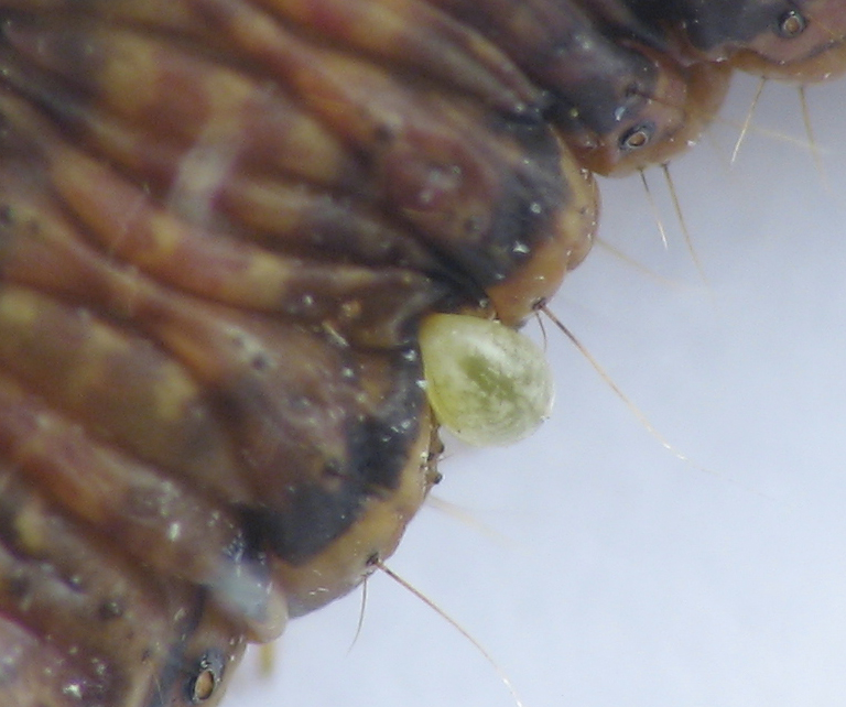 Parasitic wasp, Phytodietus, egg on Pococera caterpillar. Size: less than 1 mm. Rancocas Nature Center NJAS, Burlington County, New Jersey, USA. September 22, 2010.